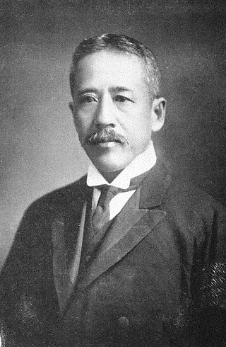 Chokichi Kikkawa